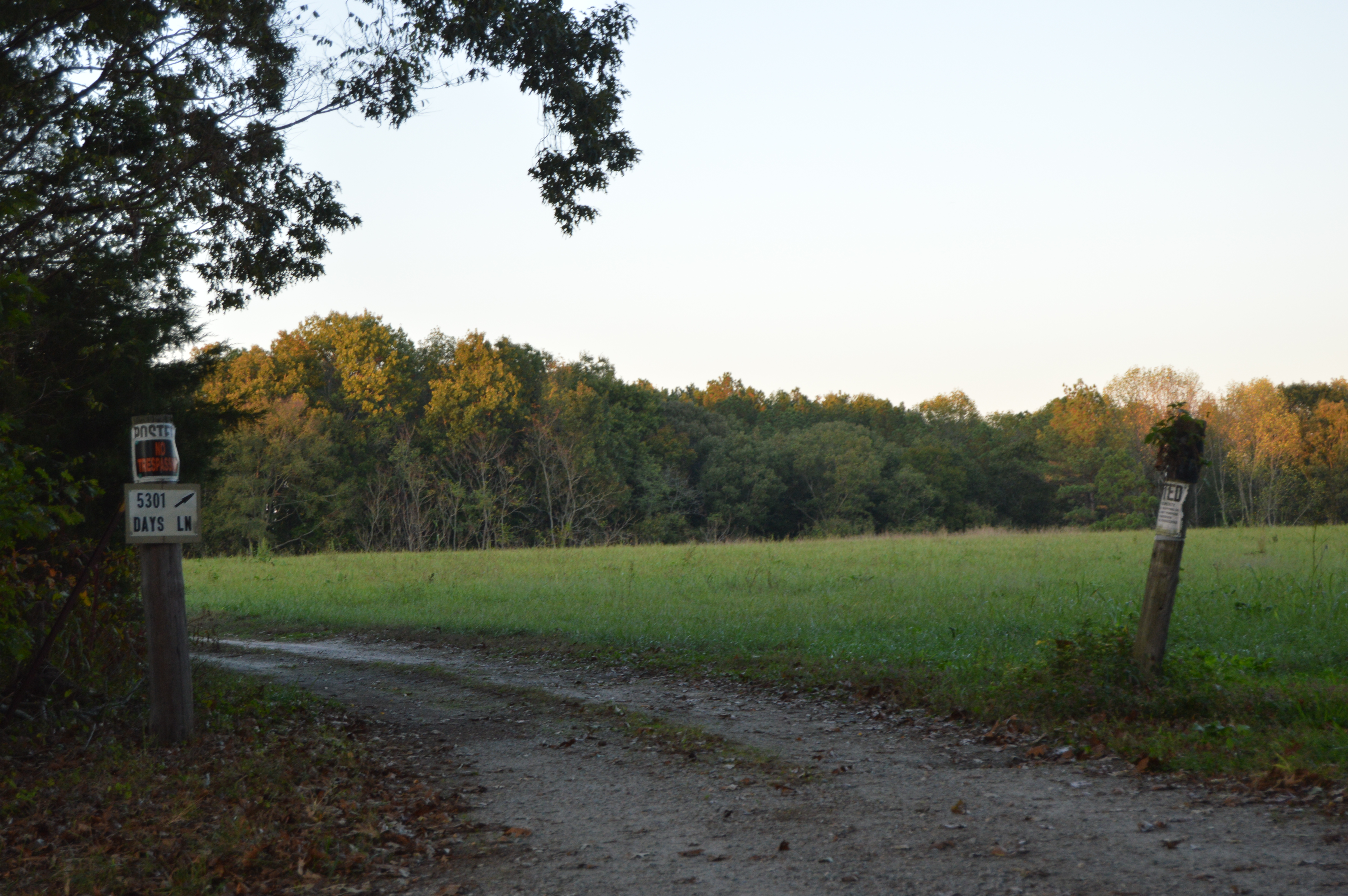 Entrance to the driveway for the Farmer House property, located at the end of Jennings Ordinary Road west of Jetersville in Amelia County, Virginia, United States. The property is listed on the National Register of Historic Places.